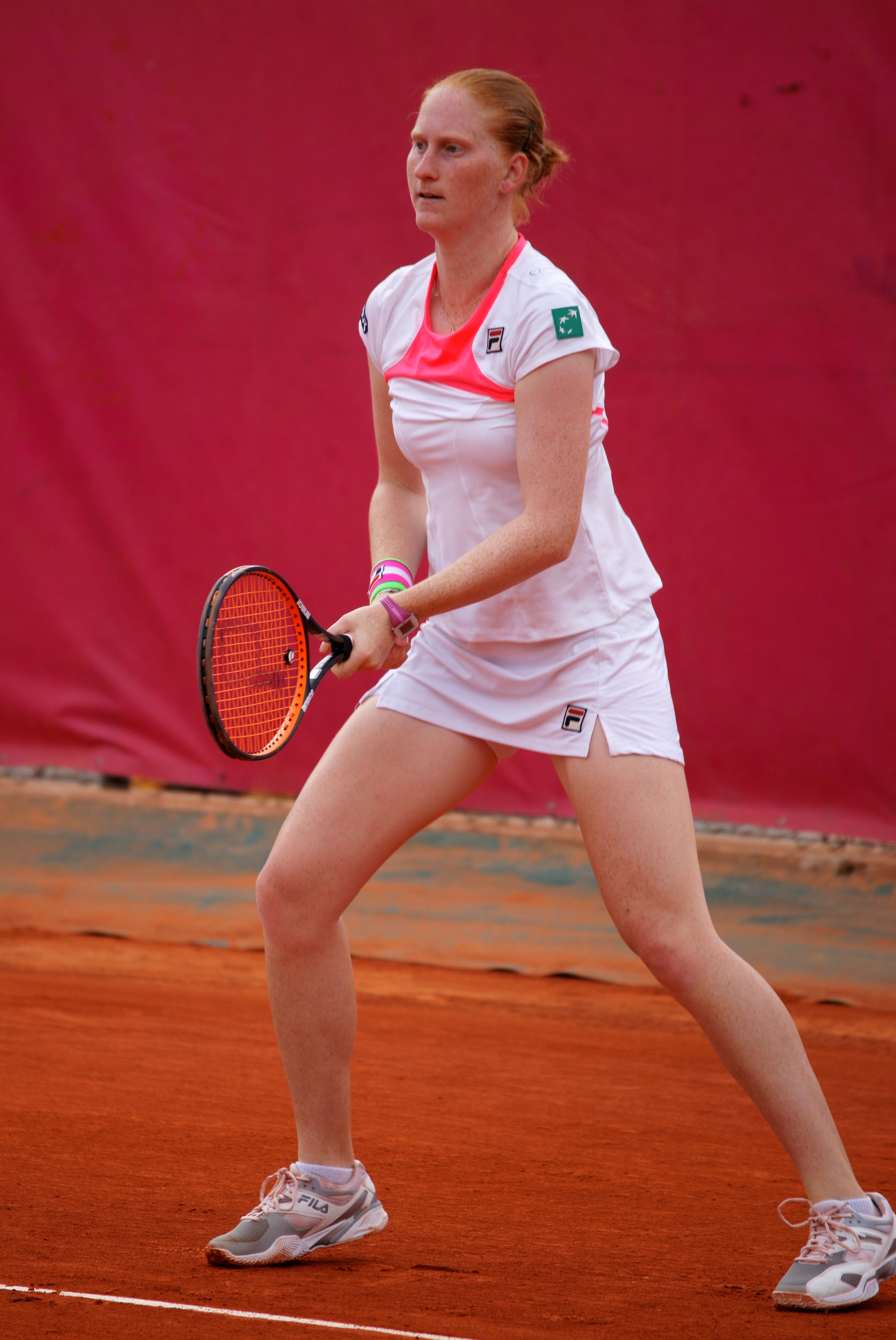 Alison Van Uytvanck, Open ITF Cagnes 2015